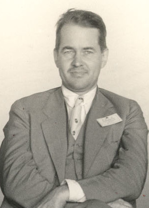 Eight of the twelve members of the National Advisory Committee for Aeronautics attending the 9th Annual Aircraft Engineering Research Conference posed for this photograph at Langley Field, Virginia, on May 23, 1934. Those pictured are (left to right): Brig. Gen. Charles A. Lindbergh, USAFR; Vice Admiral Arthur B. Cook, USN; Charles G. Abbot, Secretary of the Smithsonian Institution; Dr. Joseph S. Ames, Committee Chairman; Orville Wright; Edward P. Warner, Fleet Admiral; Ernest J. King, USN; Eugene L. Vidal, Director, Bureau of Air Commerce.